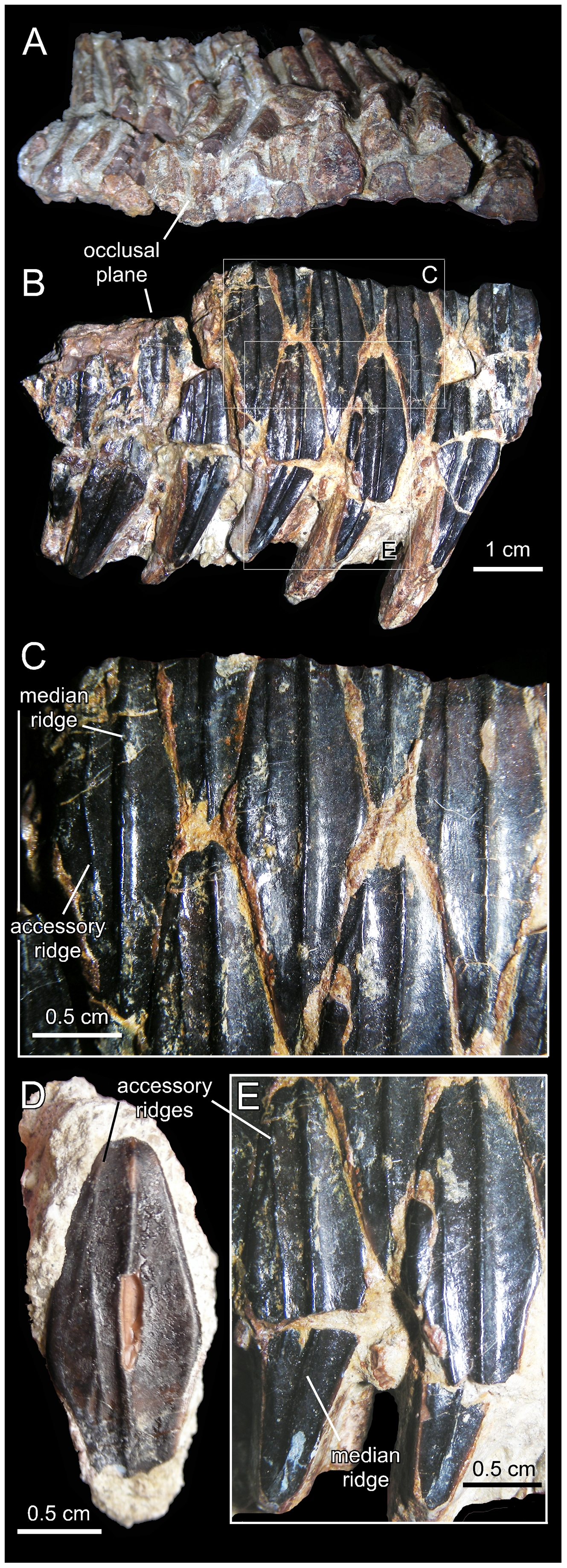 Canardia garonnensis, dentary dentition. A. Partial dentary dental battery (MDE-Ma3–26) in occlusal view. B. Lingual view of same. C. Dentary tooth crowns of MDE-Ma3–26 in lingual view. D. Isolated dentary tooth crown (MDE-Ma3–25) in lingual view. E. Dentary tooth crowns of MDE-Ma3–26 in lingual view.